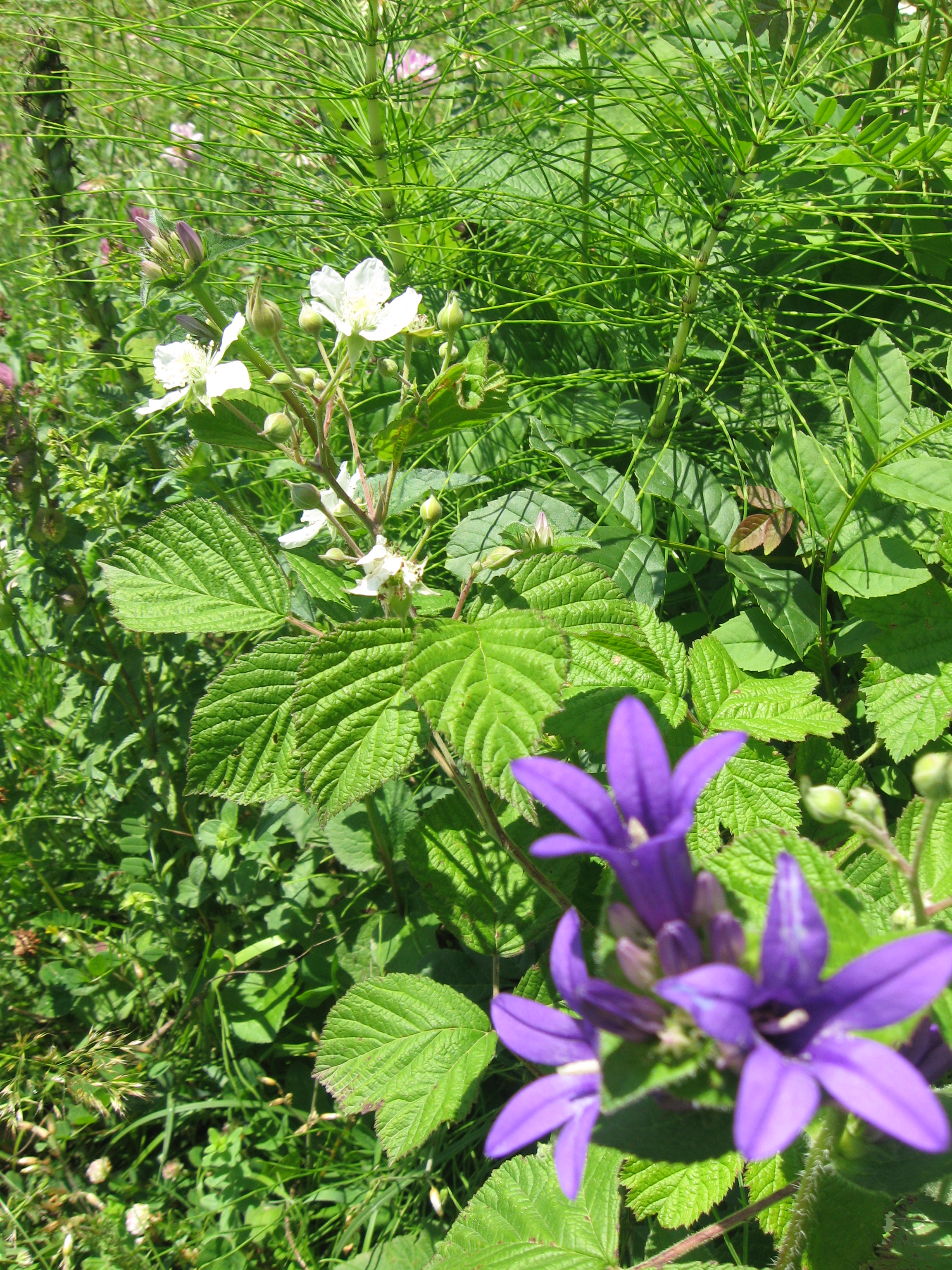 Rose hip, Azerbaijan, Quba